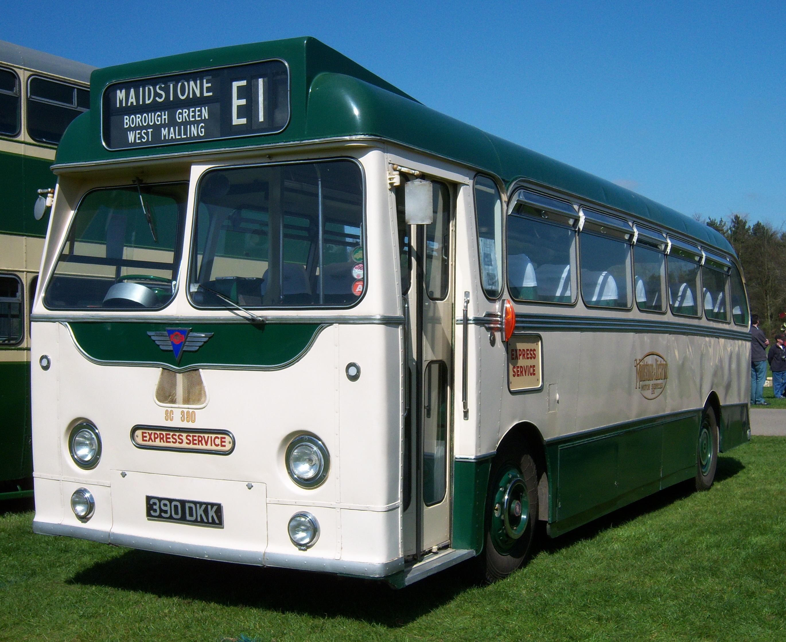 Preserved Maidstone & District coach SC390 (reg. 390 DKK), pictured at the M&D 100 rally on the Kent County Showground in Detling.